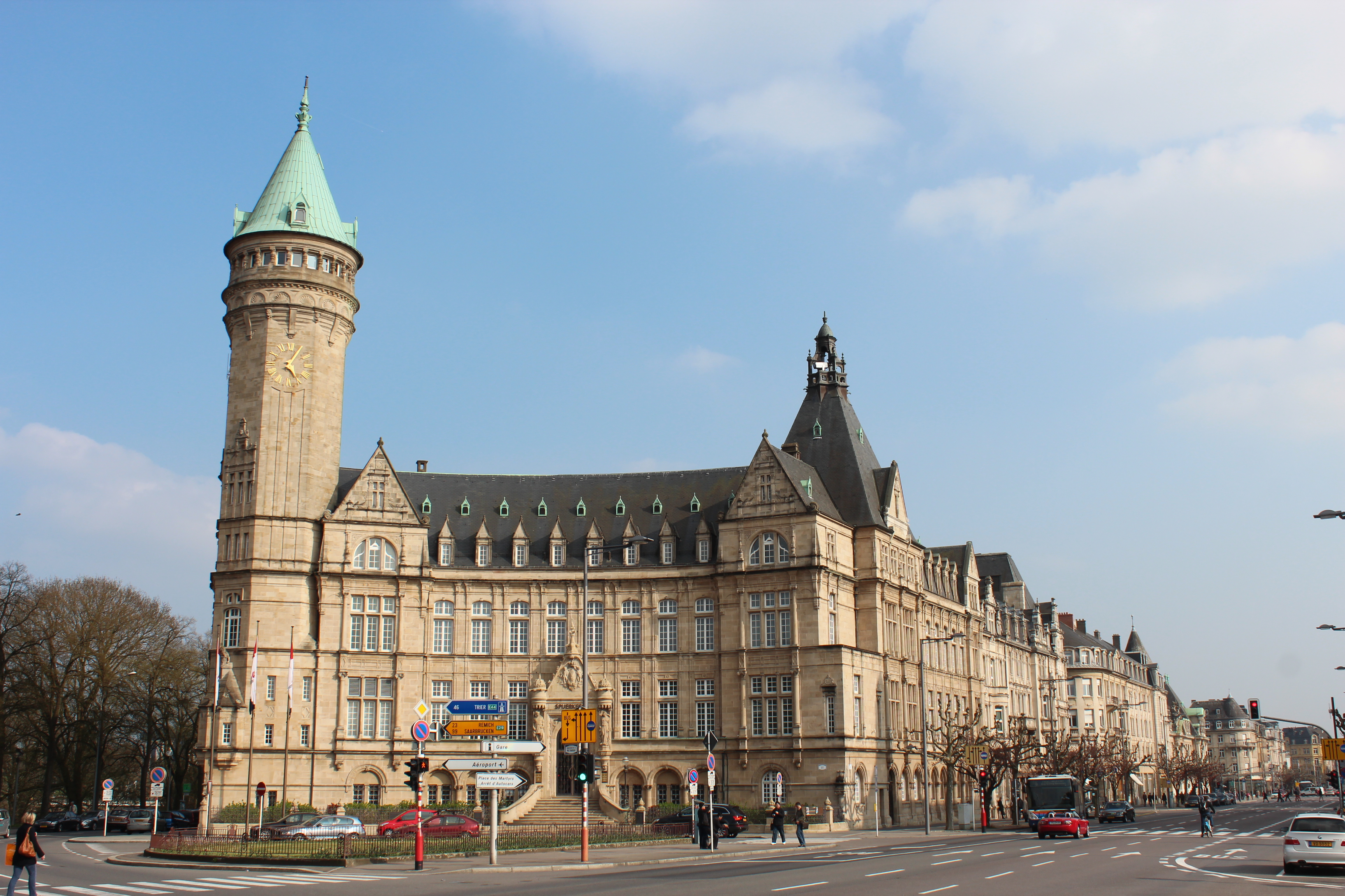 Banque et caisse d'épargne de l'État (Spuerkeess) headquaters on Place de Metz, Luxembourg City.